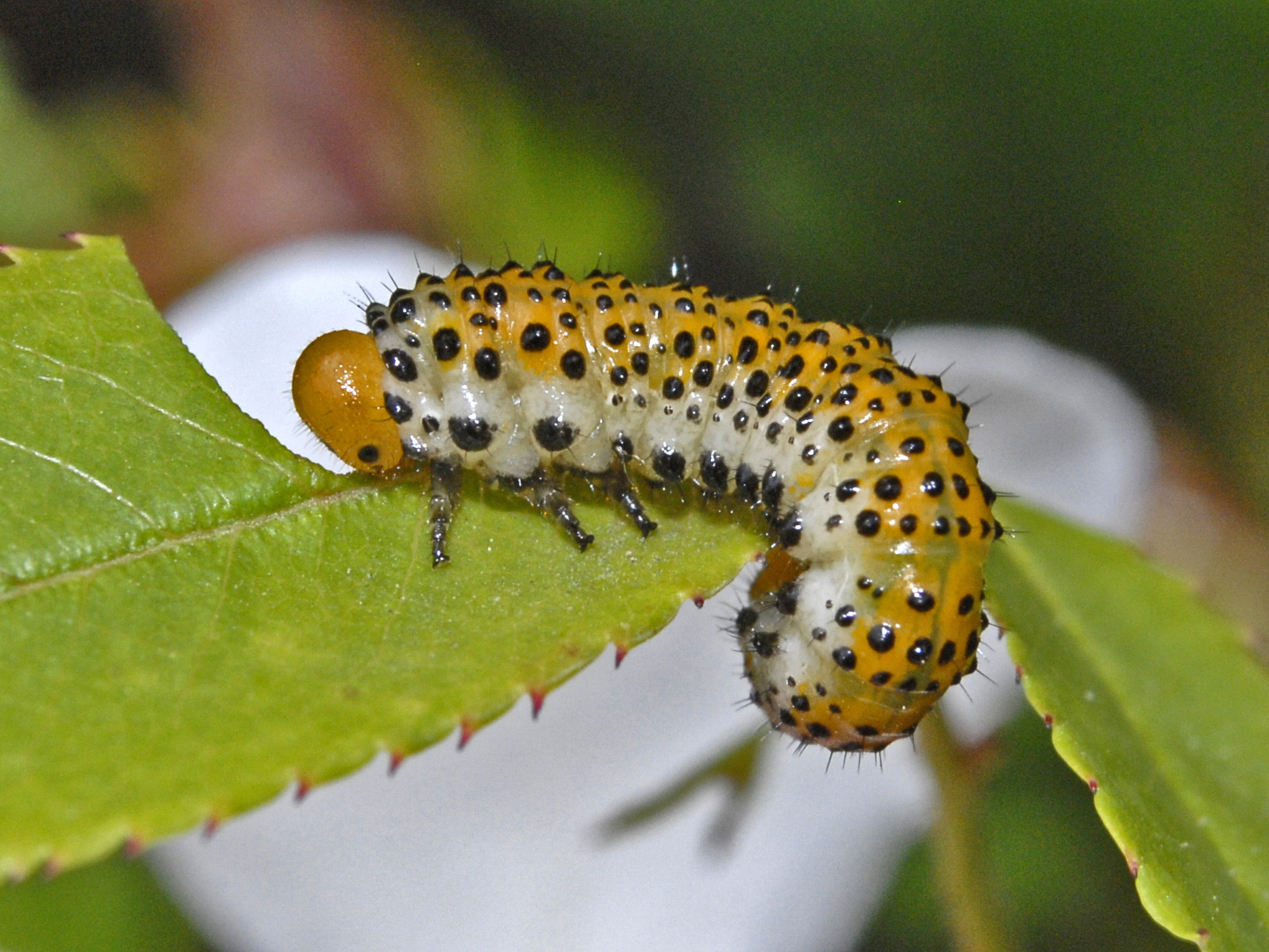 Larva of Arge ochropus. Genova, Italy